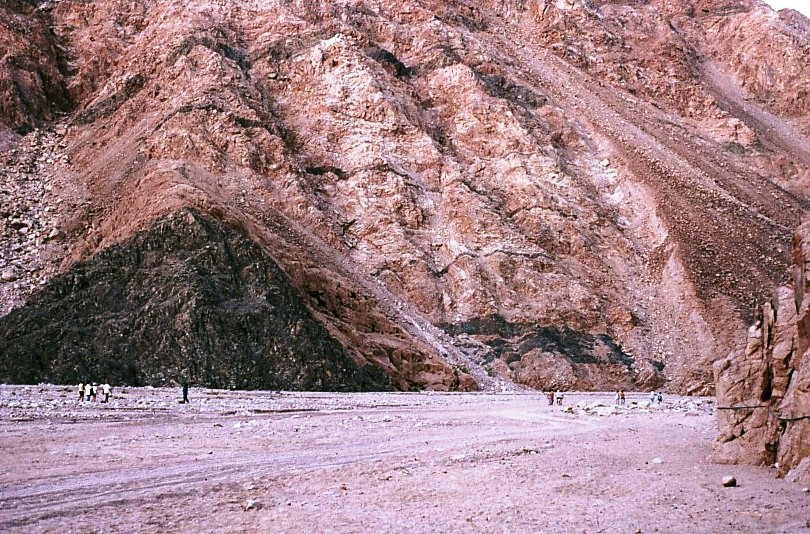 Gan-Shmuel shz34- 4, Geography of Israel